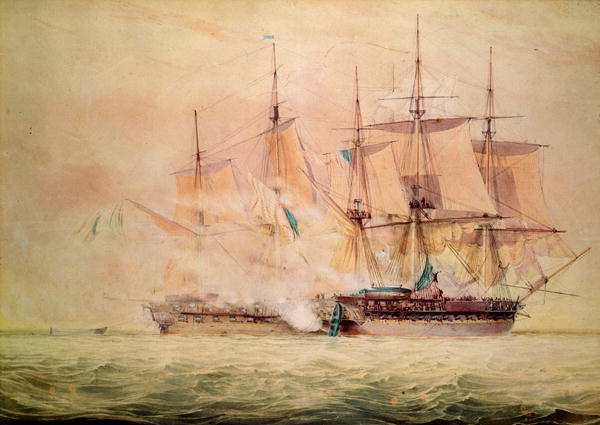 A depiction of the first cannon volley between the U.S.S. Chesapeake and the H.M.S. Shannon on 1 June 1813, which eventually defeated the Chesapeake. This was the first of a series of four paintings depicting the battle.